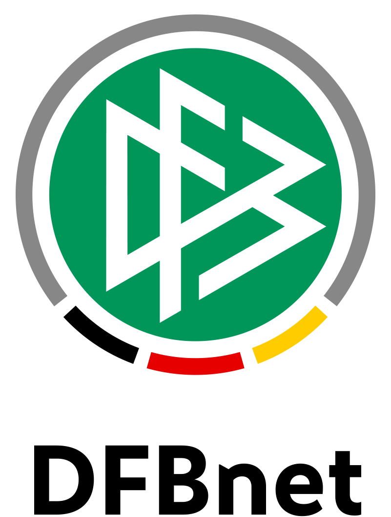 Official logo of the German Football Management System DFBnet since 2017.